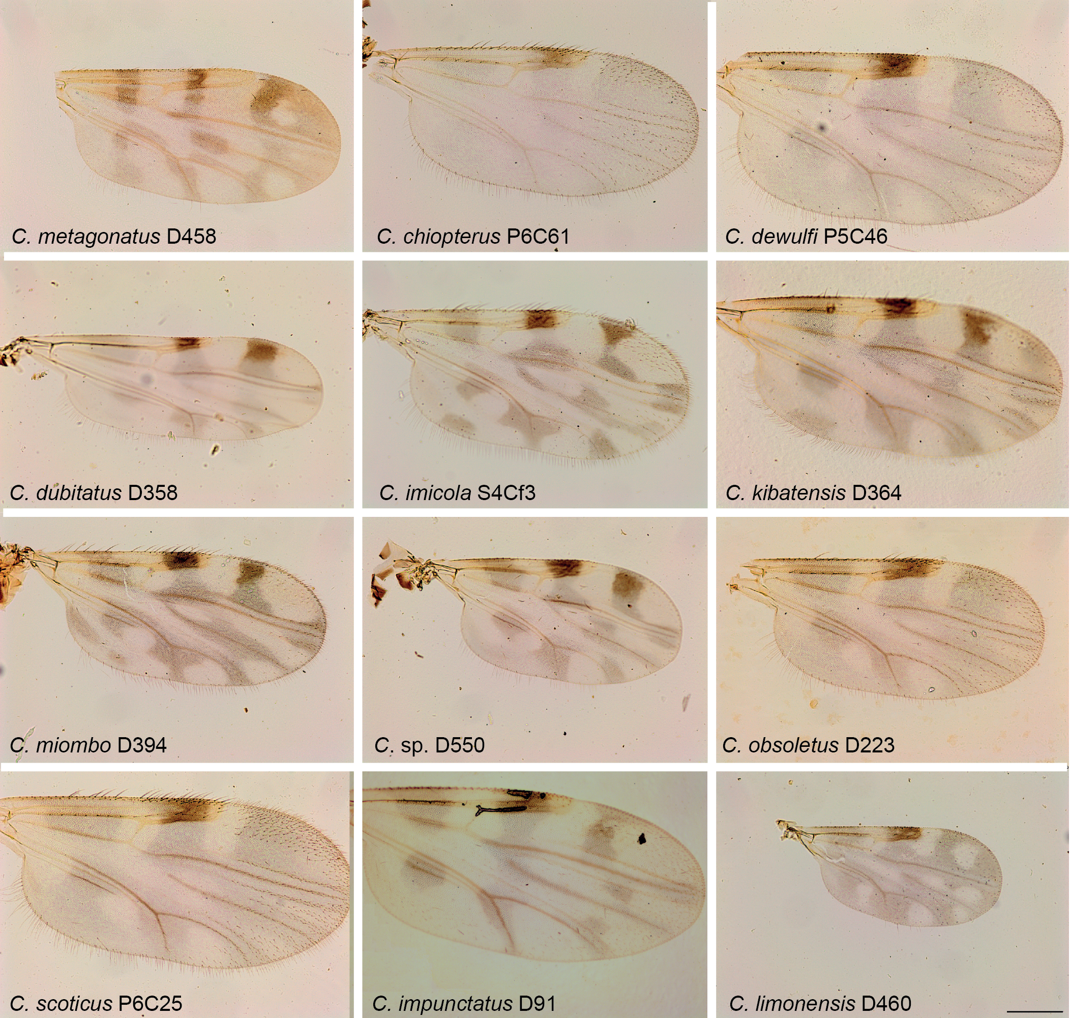 Figure 2 of paper: Culicoides wing pattern details of species included in our study. The specimen codes are linked with the table. The wings were photographed using a ×10 lens. Bars = 200 μm.